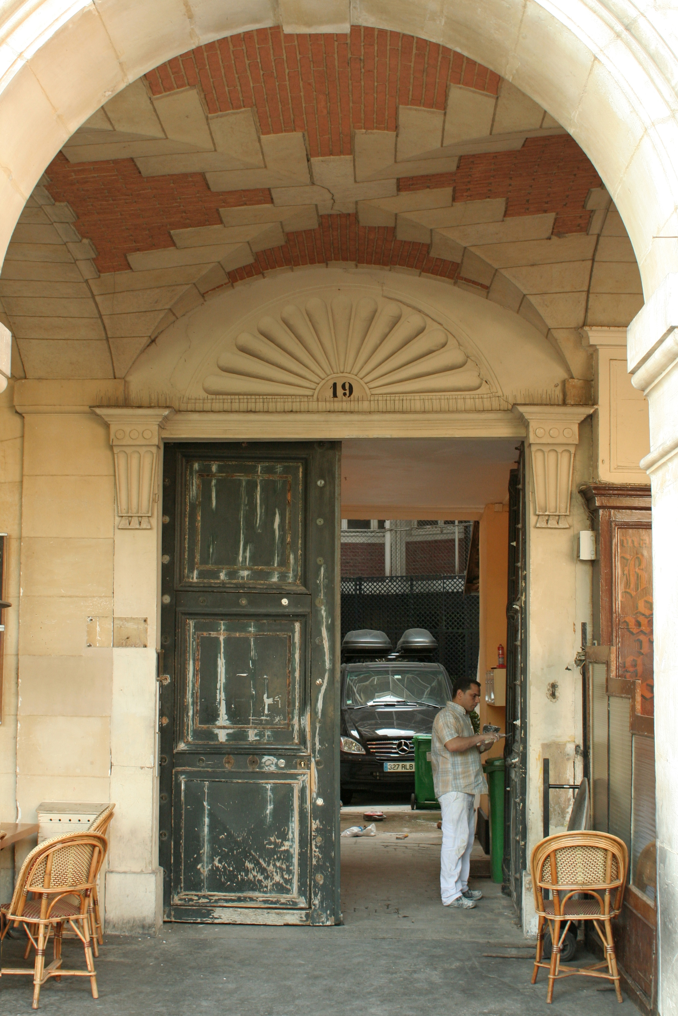 Door of 19 Place des Vosges, Paris.